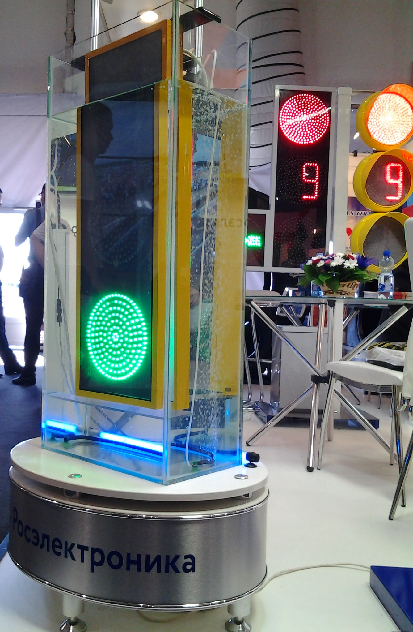 Waterproof LED street-traffic control lights made by Telemechanica plant (Rostec State Corporation)